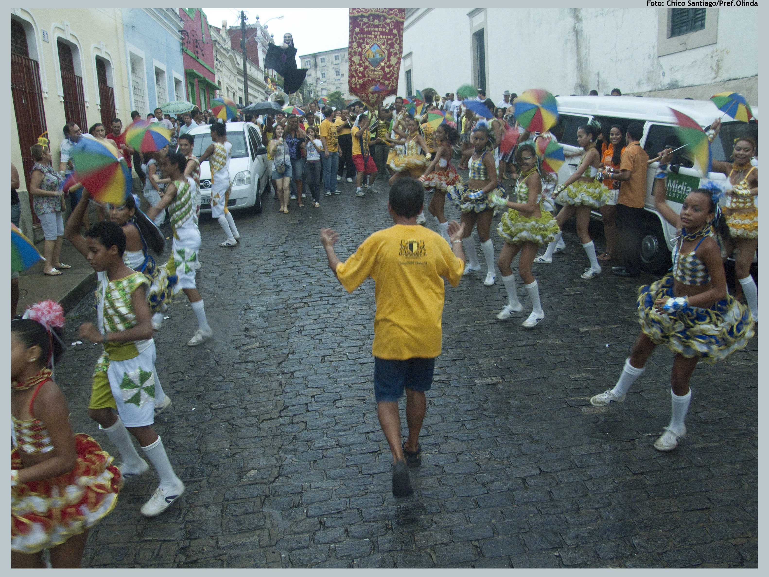 Foto: Chico Santiago/Pref.Olinda